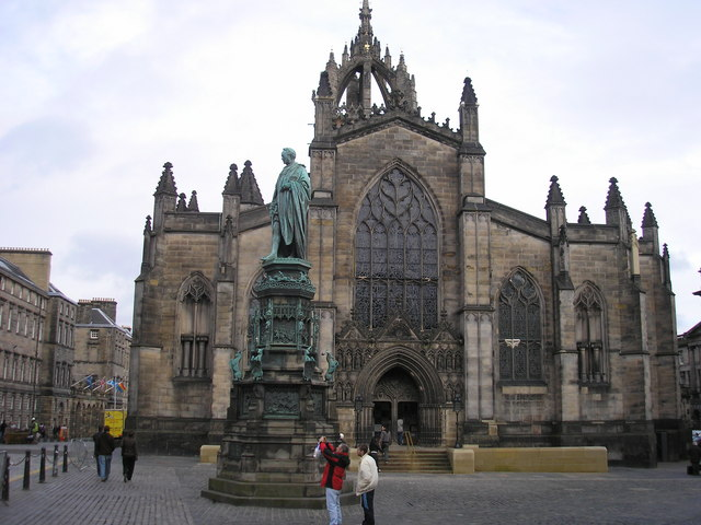 The High Kirk of Edinburgh, St Giles' Cathedral. The view of St Giles', with a clear view of the recently added ramp which was installed in order to meet with the access requirements under the Disability Discrimination Act. Some stonework has also been replaced and it will take some time until the stone has weathered (e.g. the window to the right of the main door). An earlier view shows removal of litter bins and benches (and no ramp) 339171.